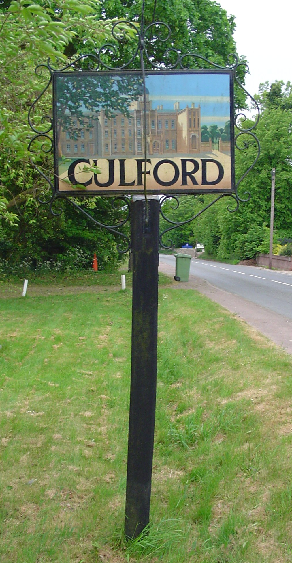 Signpost in Culford